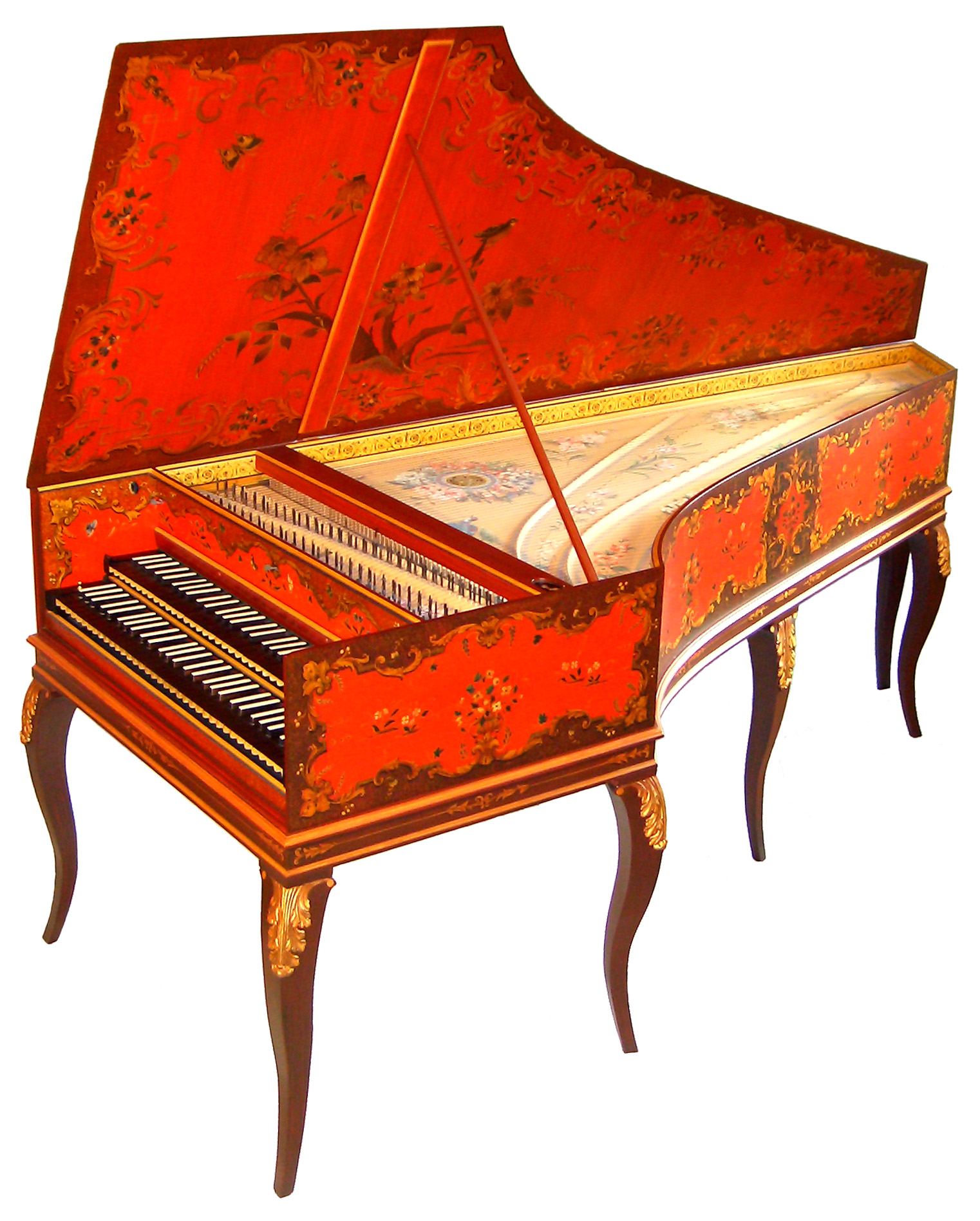 The double-manual harpsichord of Vital Julian Frey, after model from Jean-Claude Goujon 1749